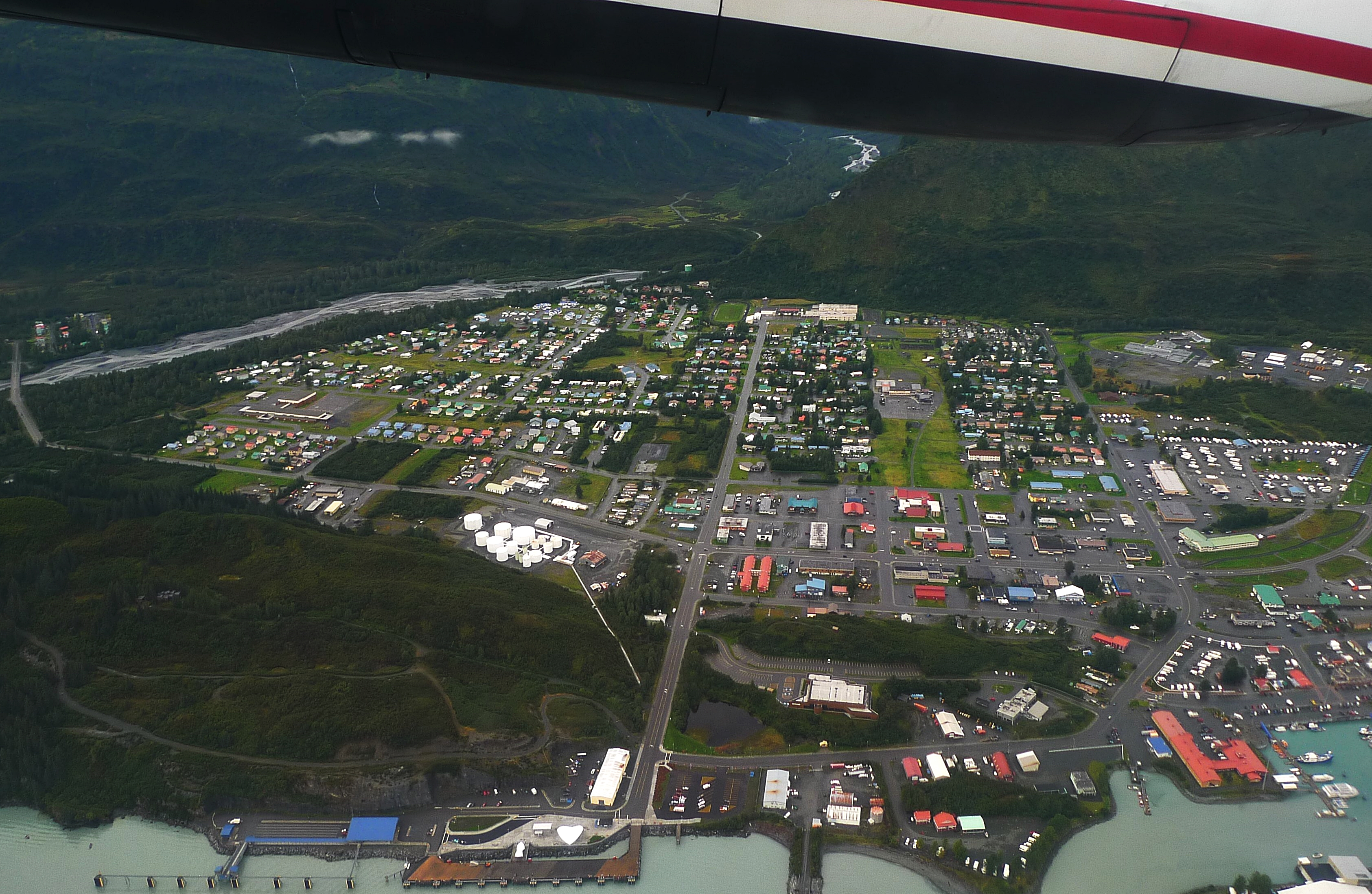 Aerial view of the main townsite of Valdez, Alaska, cropped to remove most of the airplane prop/wing and sparsely populated areas on the townsite's outskirts.